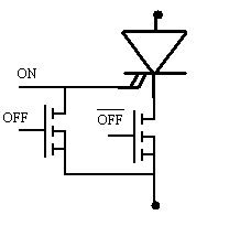 ETO equivalent circuit